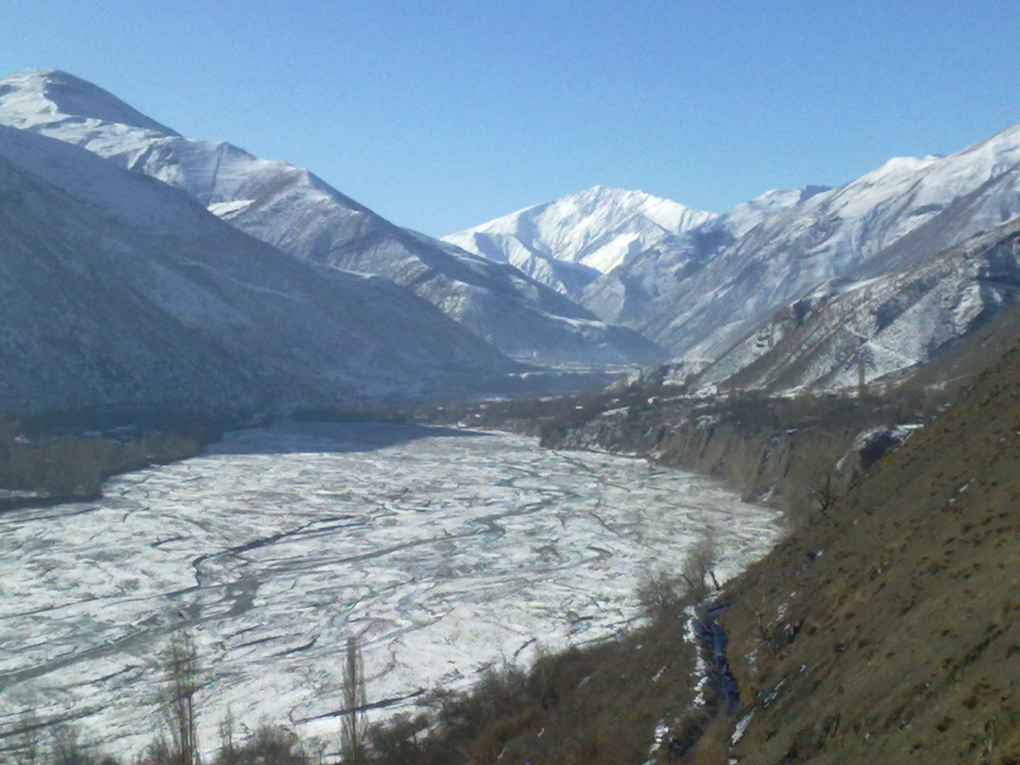 The mount of Yarudag in Dagestan, Russia.